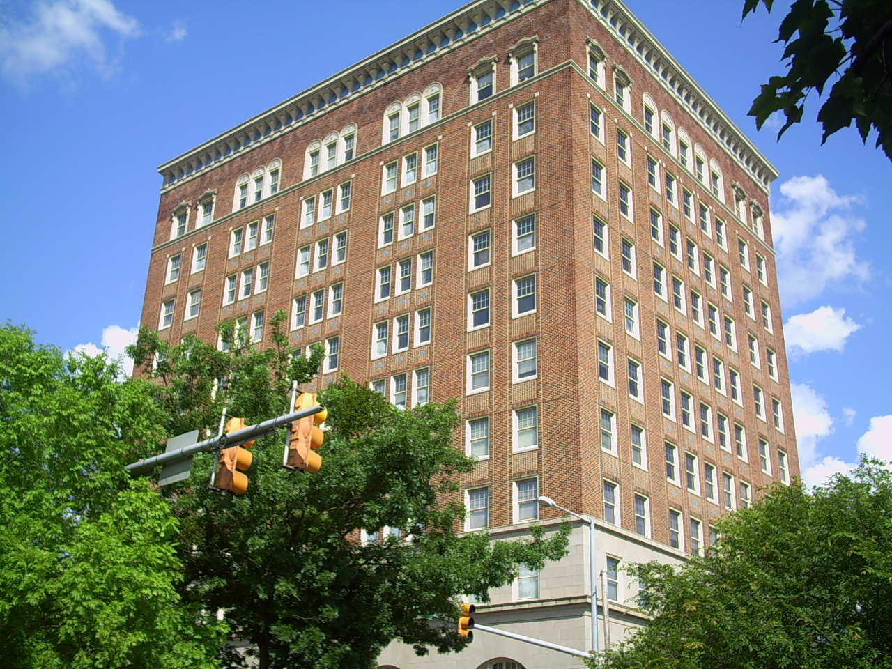 Lamar Hotel (AKA the Raymond P. Davis County Annex Building) in Meridian, Mississippi.